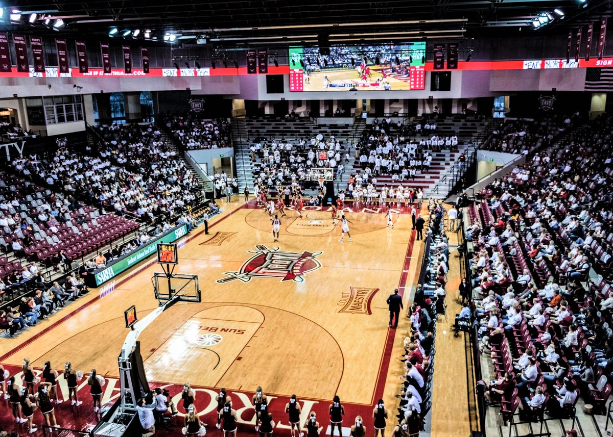 View inside Trojan Arena